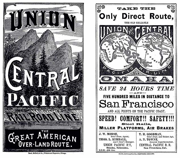 Composited digital restoration of engraved cover illustrations from the 1881 Timetable and Map of the Union and Central Pacific Railroad Line "The Great American Over-Land Route" Scanning, digital reconstruction, compositing, and restoration by (uploader)